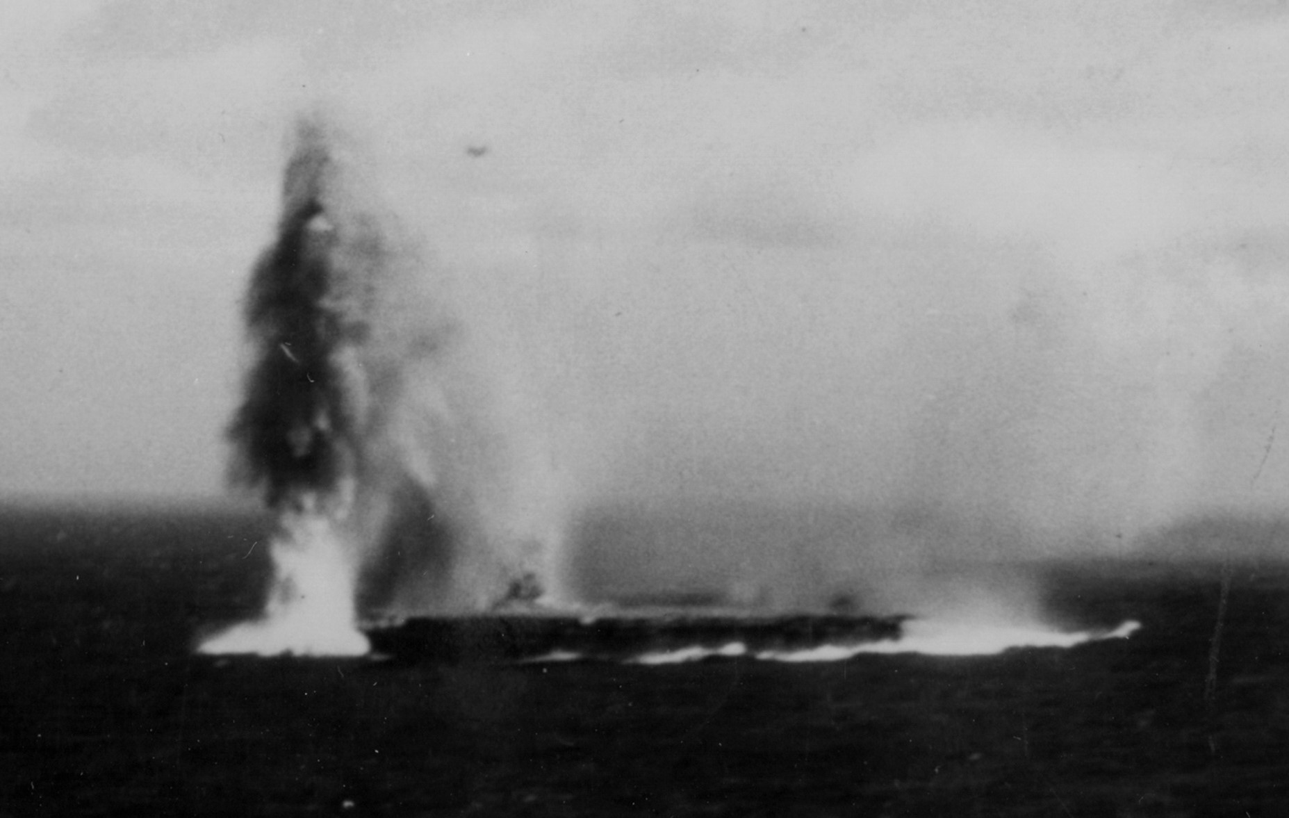 Bombs burst near the Japanese aircraft carrier Shokaku as she was attacked by USS Yorktown (CV-5) planes in the morning of 8 May 1942 during the Battle of the Coral Sea. Note the anti-aircraft shell burst in left center, with fragments splashing below and further left.